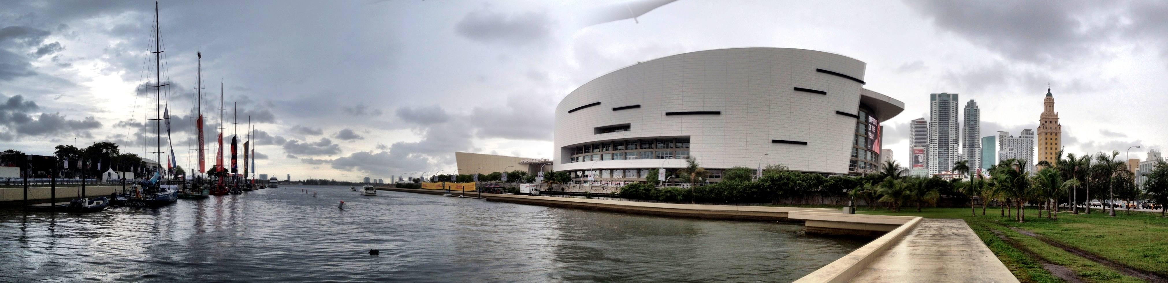 Boat slip, part of what will become Museum Park.